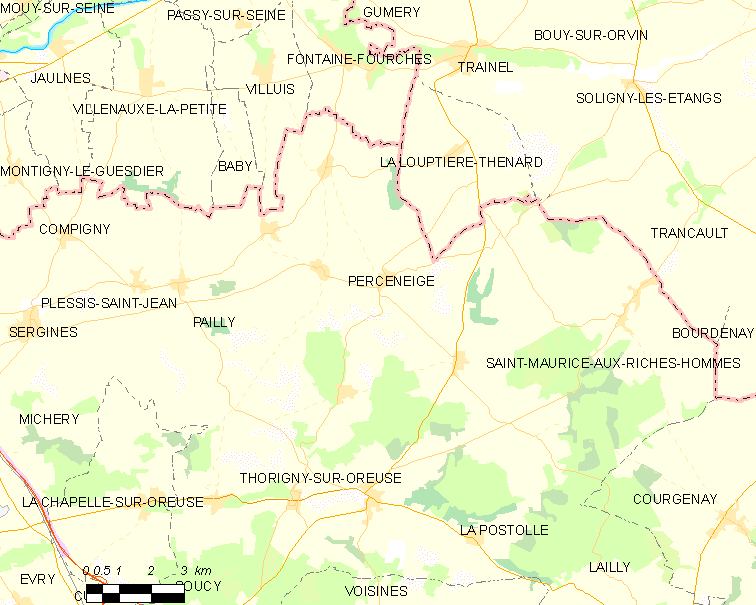 Map of French municipality Perceneige